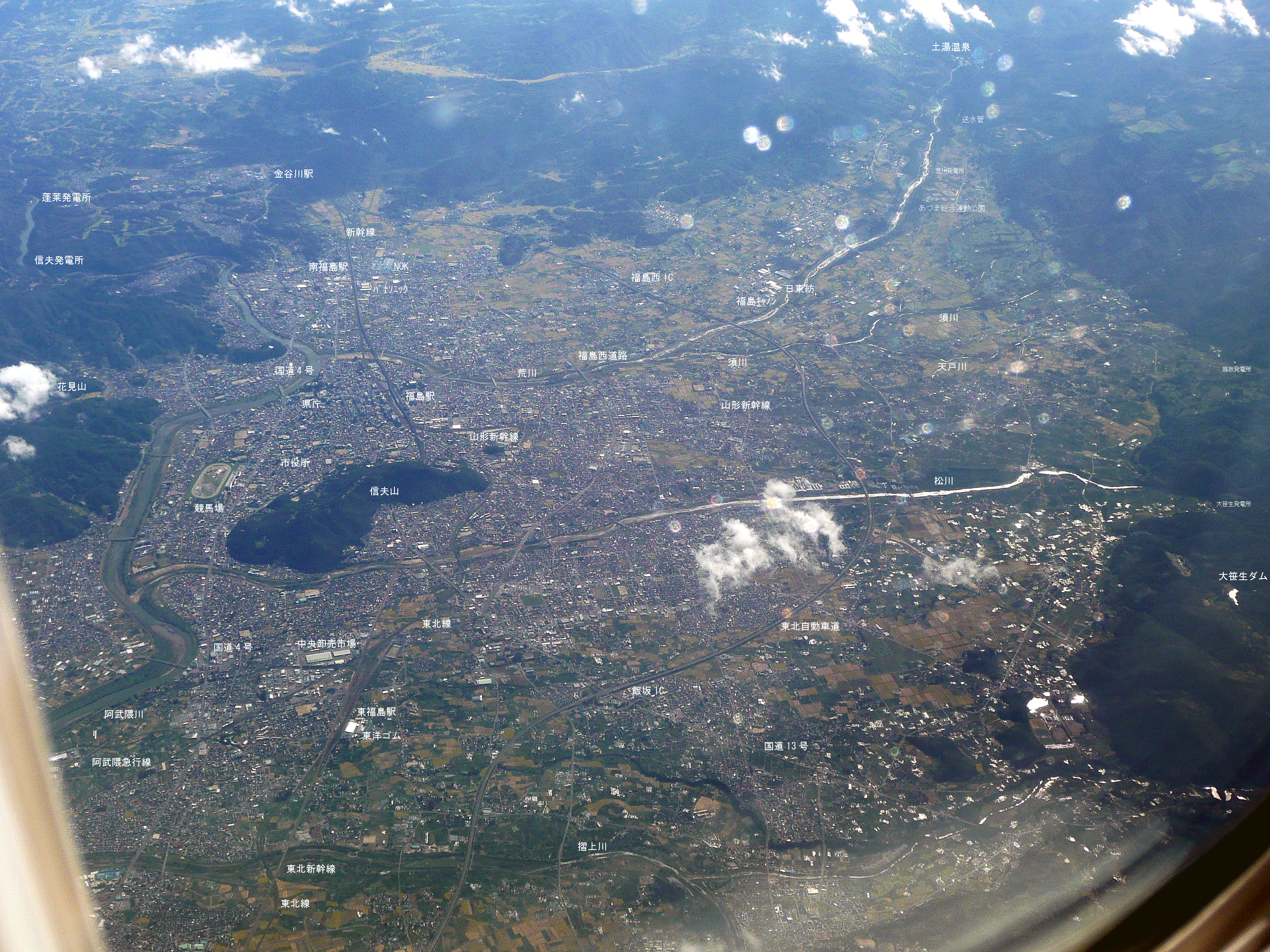 Aerial photograph of Fukushima, Fukushima, located in Fukushima Basin